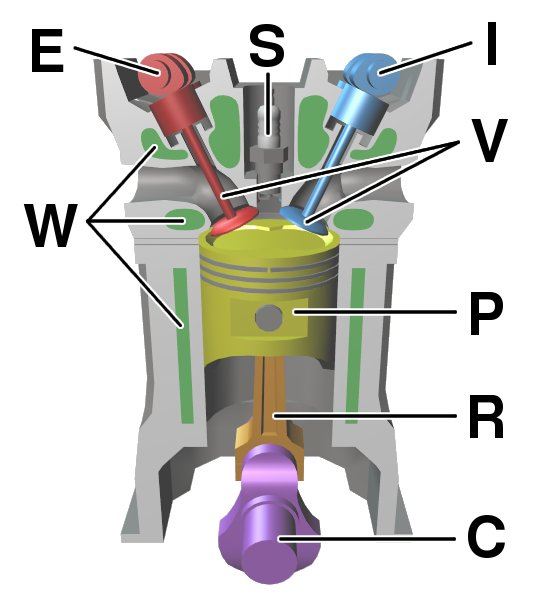 Labeled diagram of a four-stroke DOHC engine. C – crankshaft. E – exhaust camshaft. I – inlet camshaft. P – piston. R – connecting rod. S – spark plug. V – valves. red: exhaust, blue: intake. W – cooling water jacket. gray structure – engine block.